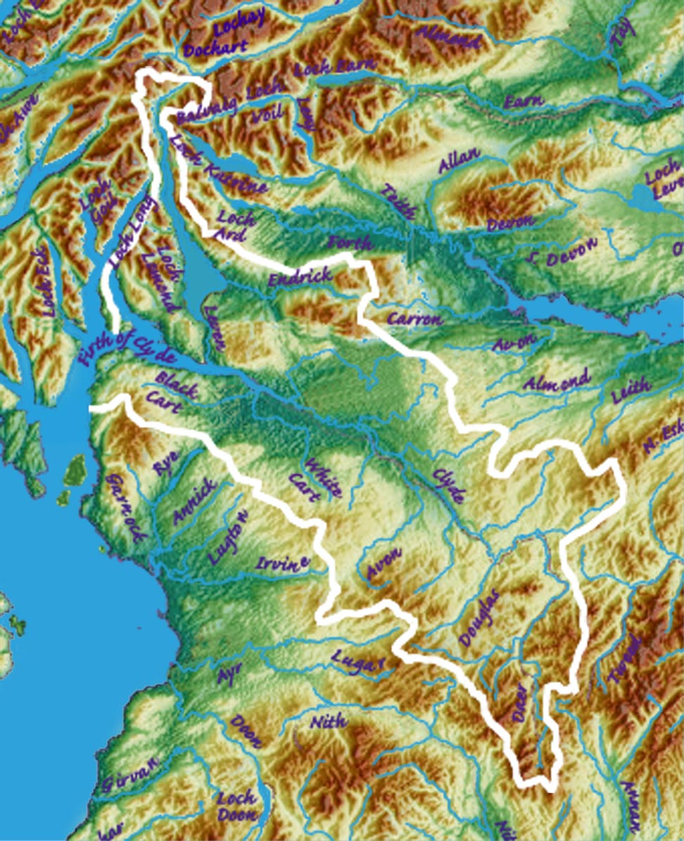 River Clyde catchment (topographic)